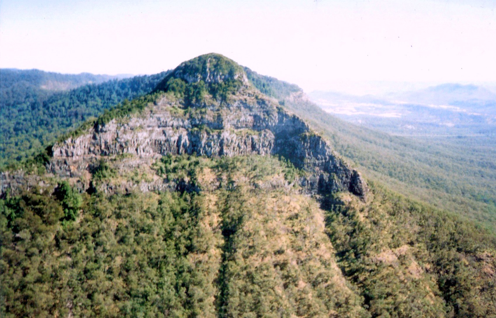 View westwards of Mount Mitchell.